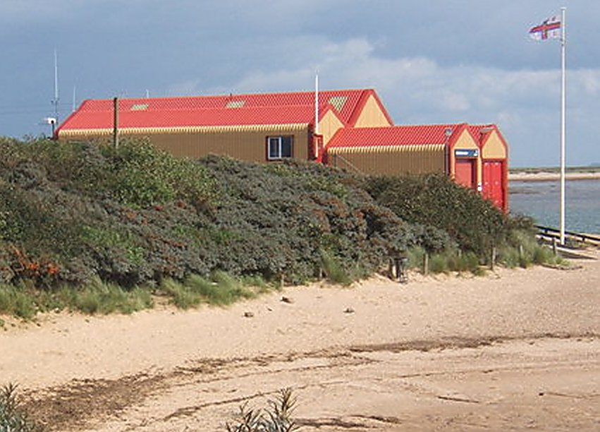 Lifeboat station at Wells-next-the-Sea.